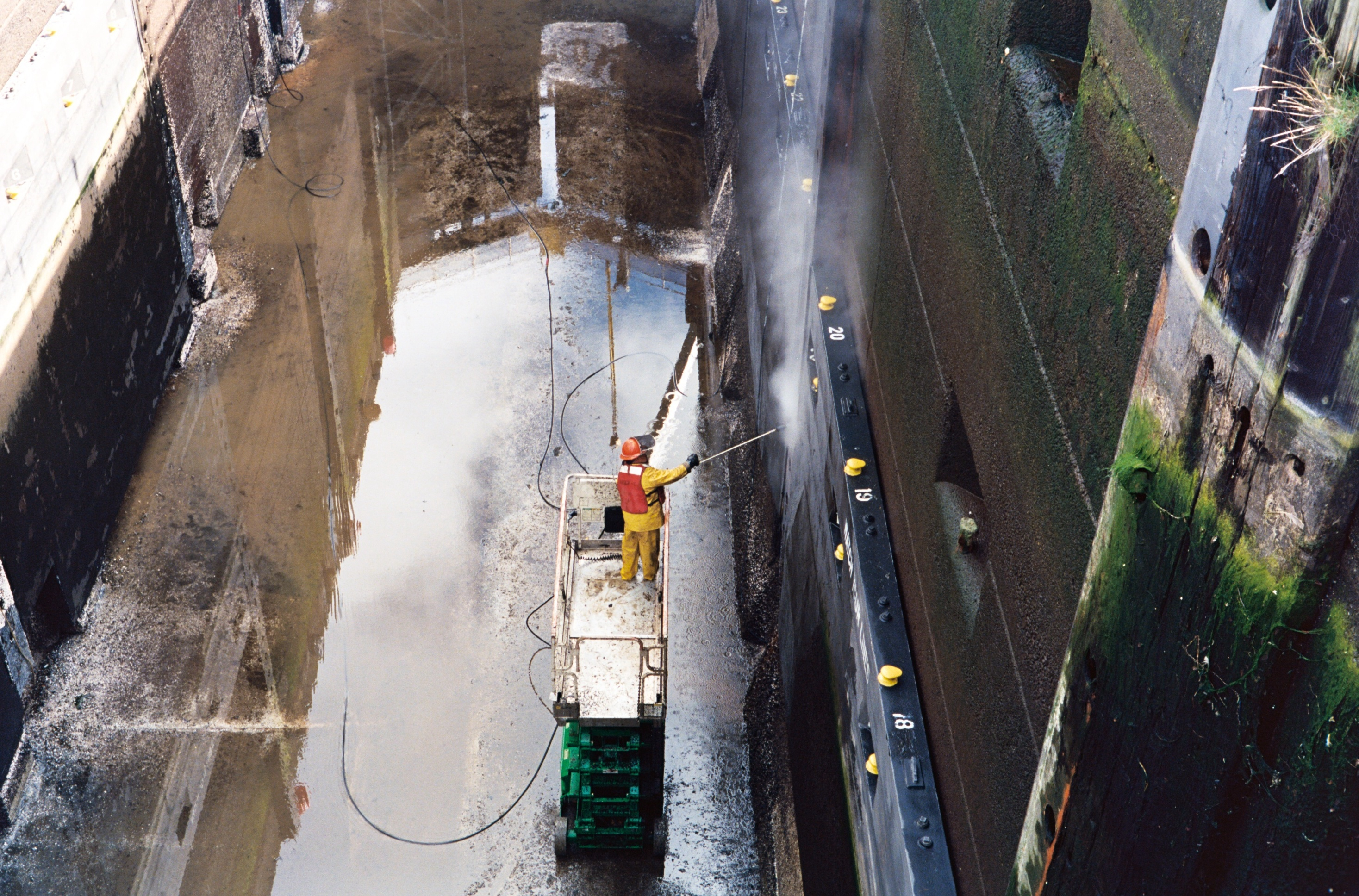 Ballard Locks cleaning. Press release: Hiram M. Chittenden Locks Small Lock Closure Mar. 12th-Mar. 23th The Small Lock at Hiram M. Chittenden Locks will be closed from Monday, Mar. 12th at 1300 through Friday, Mar. 23rd at 1700, for its annual inspection and maintenance activities. The Large Lock will continue to operate 24/7 and we will attempt to get the commercial traffic through as quickly as possible while still accommodating recreational traffic. This annual closure is important in ensuring 24/7 operation at a project that is approaching its 100 year anniversary. Much of the machinery and most of the gates and valves are original from 1917. We appreciate your patience and understanding during this time and look forward to having full use of the Small Lock at the end of this closure.